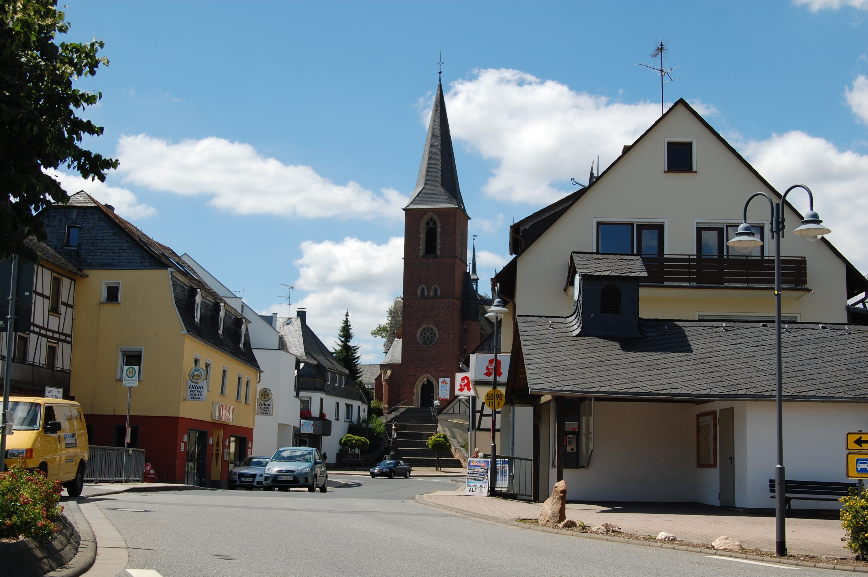 Church Sohren in the Hunsrück landscape, Germany